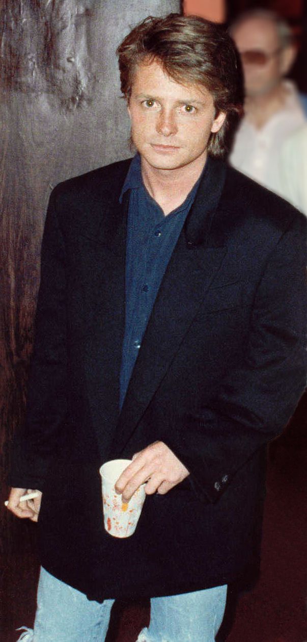 39th Emmy Awards - Sept. 1987- rehearsal - Permission granted to copy, publish or post but please credit "photo by Alan Light" if you can